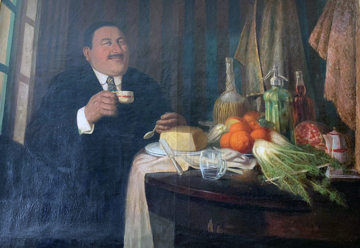 Friend of the painter, oil on canvas, private collection